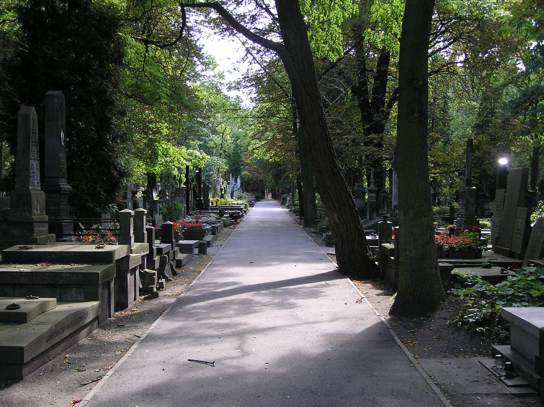 Powązki Cemetery in Warsaw